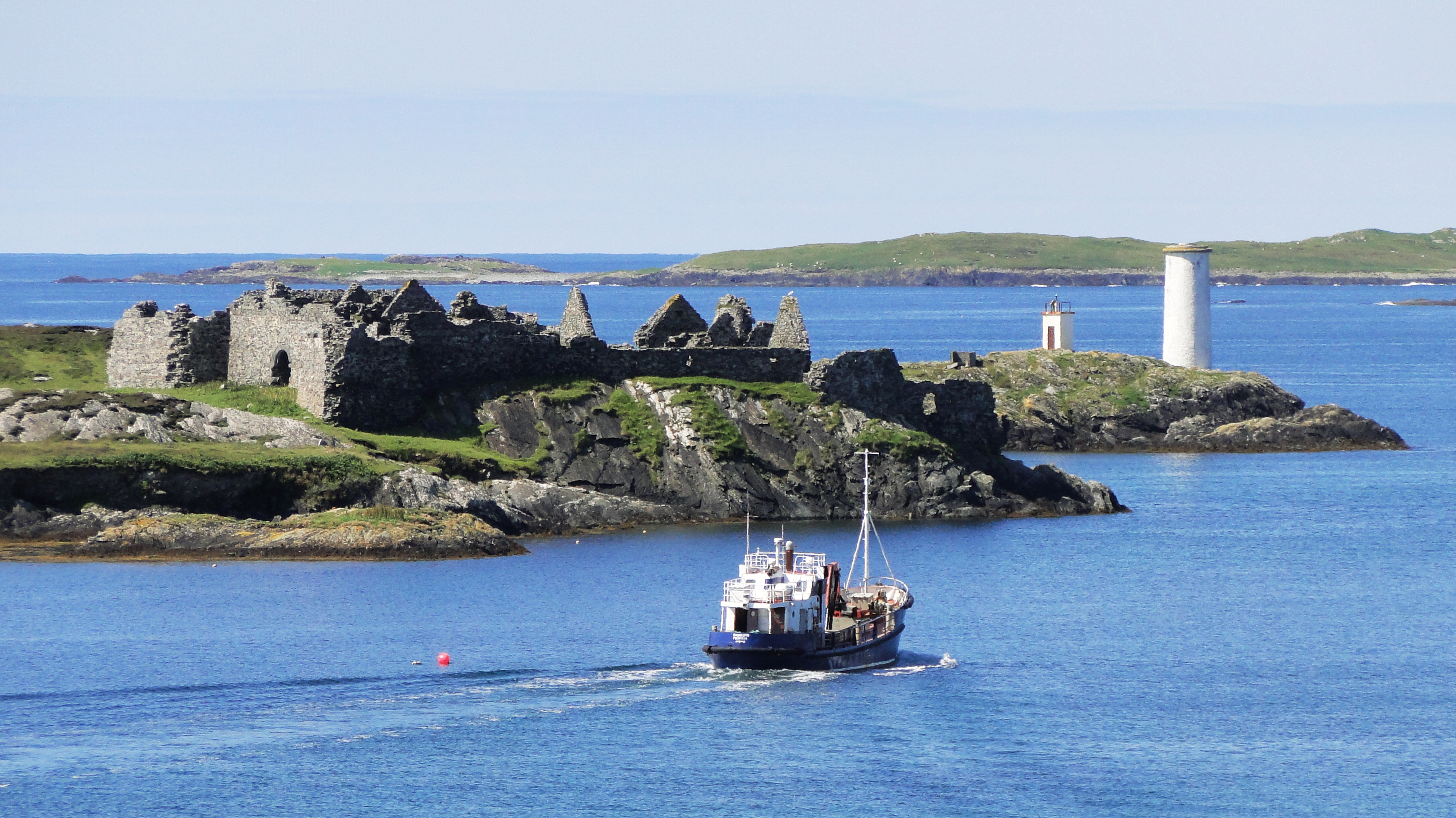 Inishbofin harbour, Port Island with Cromwell's Barracks and the light on Gun Rock, a ship leaving the harbour